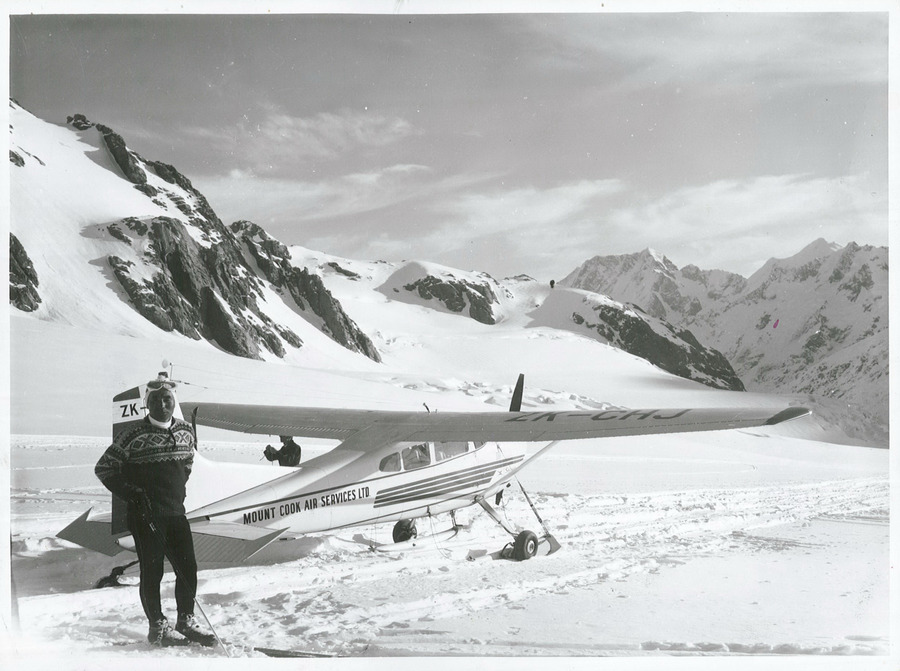 Yuichiro Miura, August 1966, Tasman Glacier, Mt. Cook